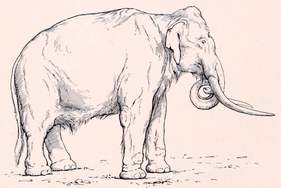 Southern Mammoth Mammuthus meridionalis The Southern Mammoth lived in Europe and Asia in the late Pliocene from about 2.5 to 3 million years ago and migrated to North America in the early Pleistocene around 1.8 million years ago. It stood about 14 ft at the shoulder